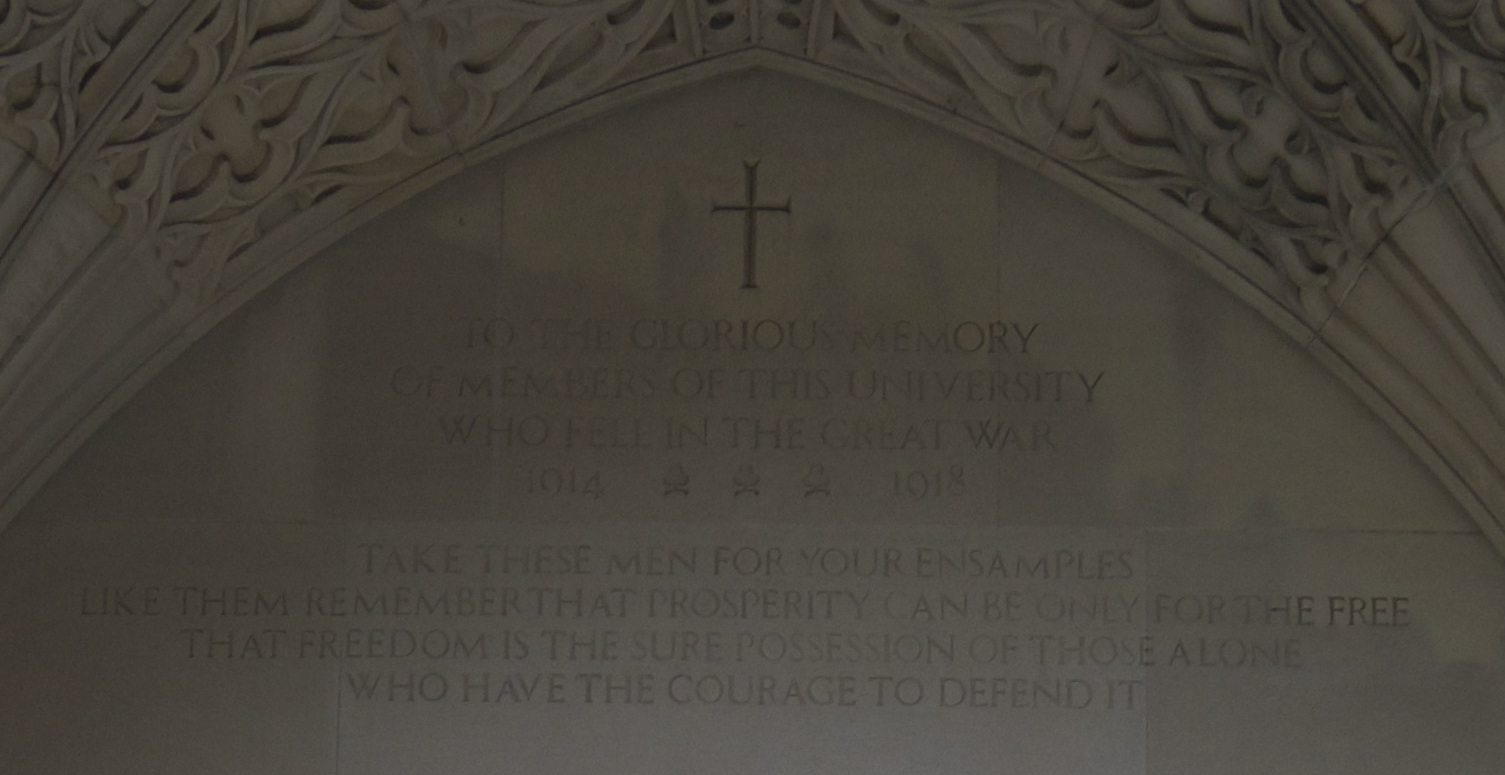 One of the WWI inscriptions on the Soldier's Tower at the University of Toronto, forming the start of panel 1 of the 1914-1918 list. Inscription: To the glorious memory / of members of this University / who fell in the Great War / 1914–1918. Take these men for your ensamples / like them remember that prosperity can be only for the free / that freedom is the sure possession of those alone / who have the courage to defend it.